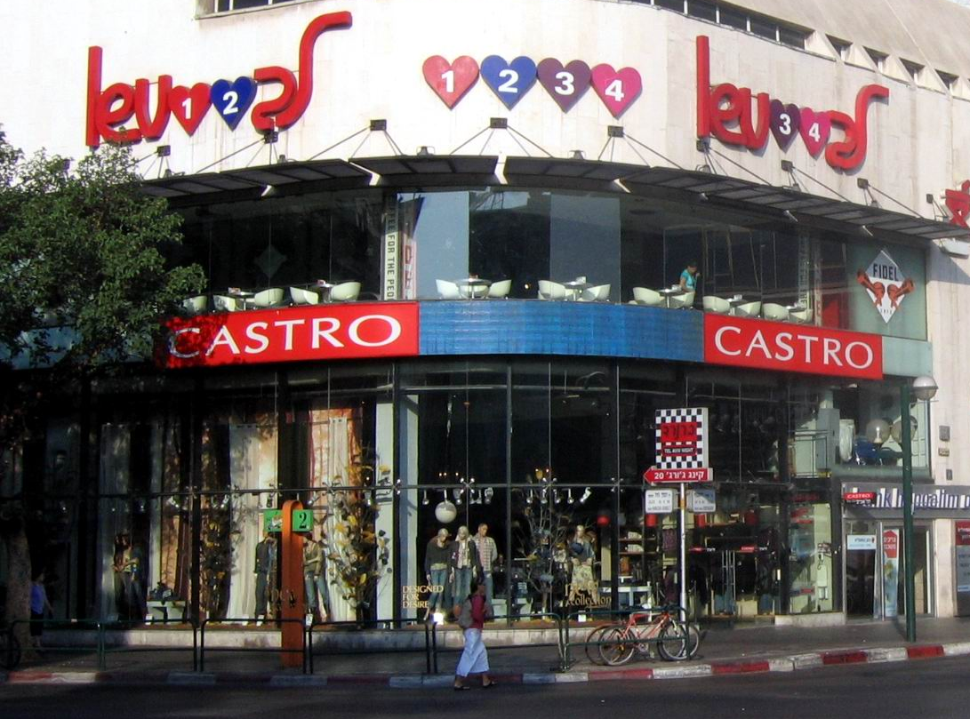 Dizengof Center in Tel Aviv, Israel. South building and east bridge. View from East, Kaplan Street. Taken on June 9th, 2005, by Benjamin Shlevich.Castro (clothing company)